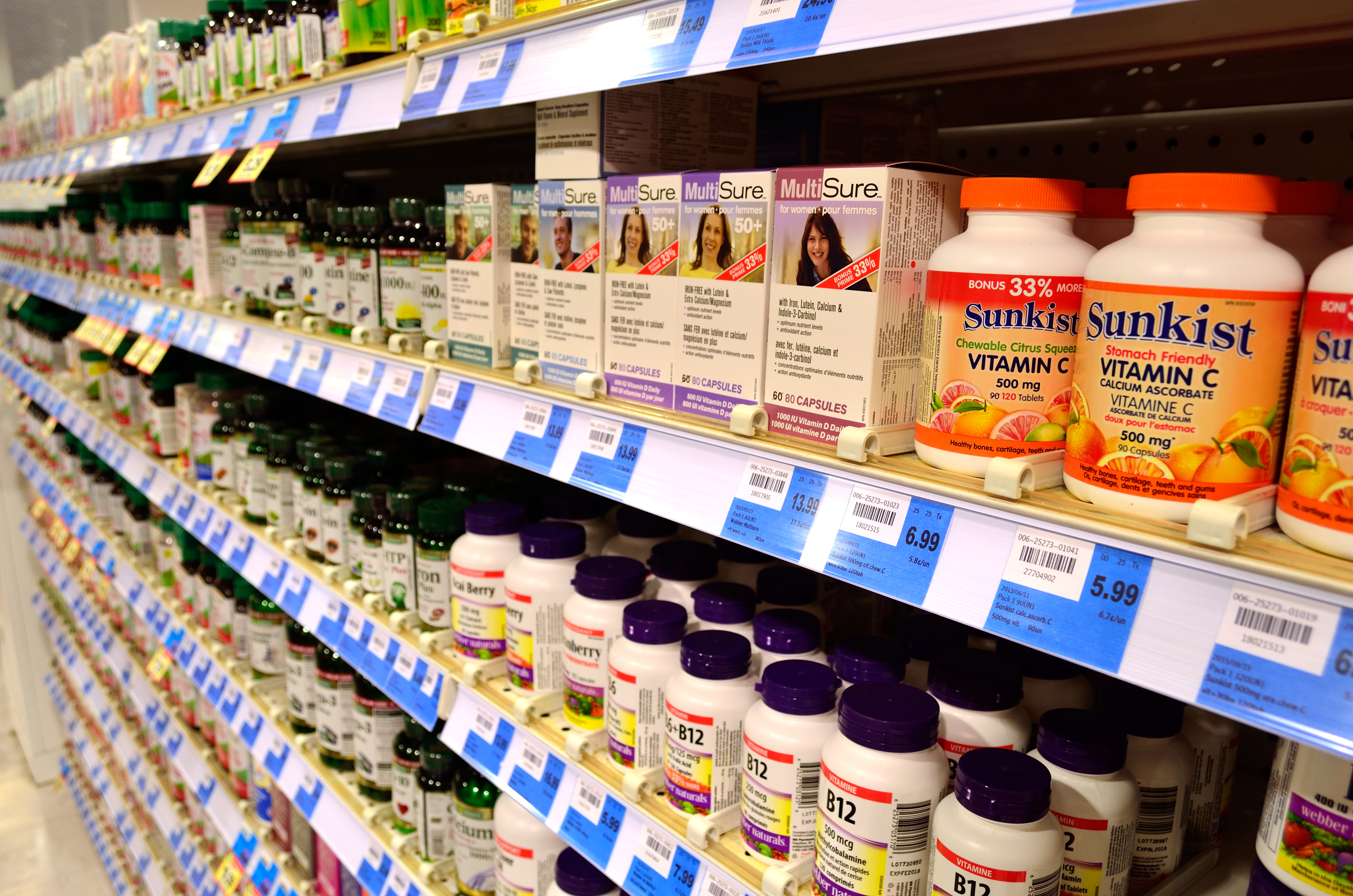 Vitamin supplement pills